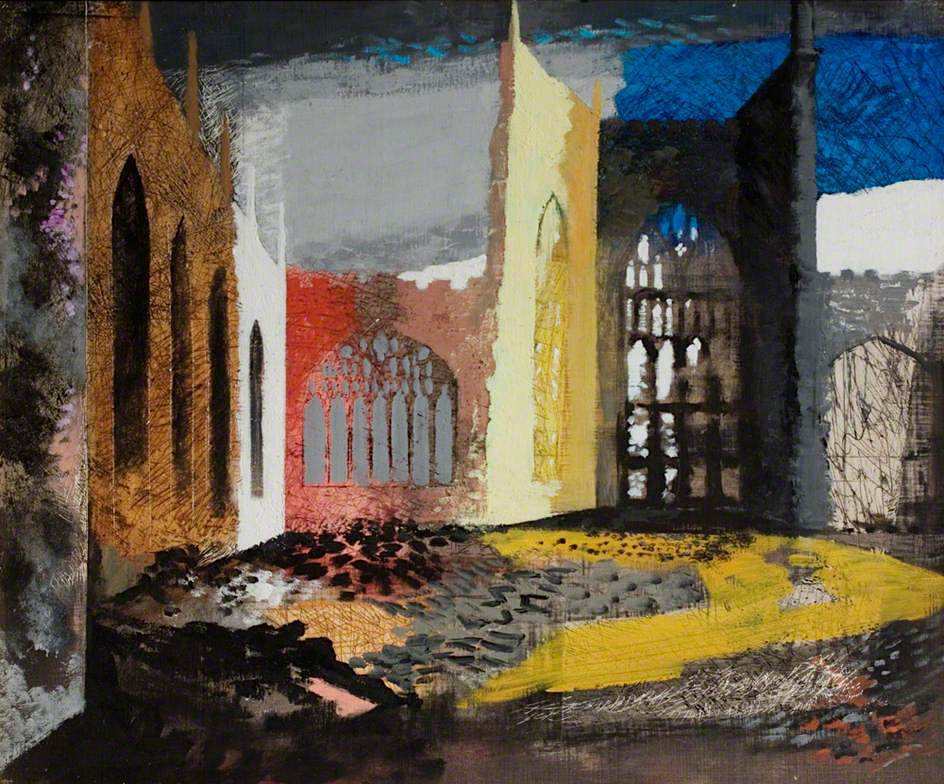 Interior of Coventry Cathedral, from sketches made on 15 November 1940, the day after its destruction in an air raid.